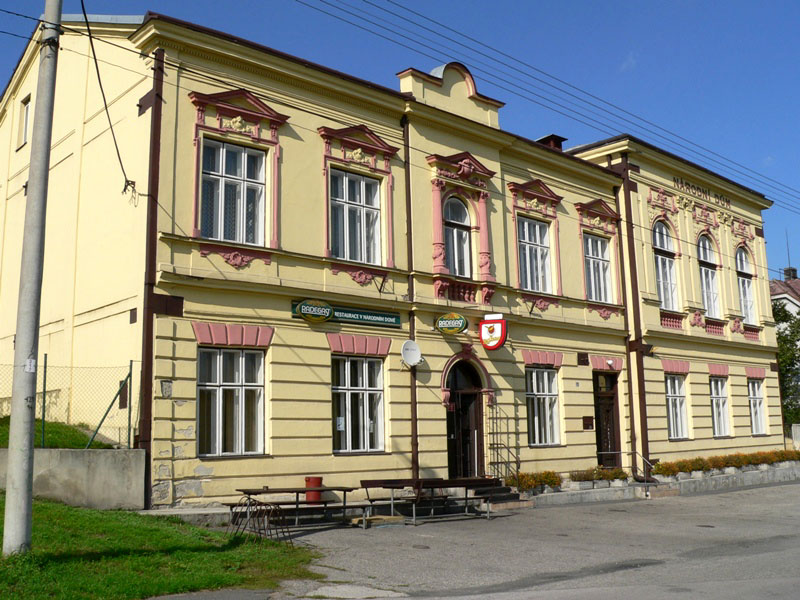 Description: Národní dům (National House) in Doubrava (Dąbrowa), Czech Republic. Date: 4 September, 2006 Camera: Panasonic DMC-FZ20 Author: Czesil (my friend)